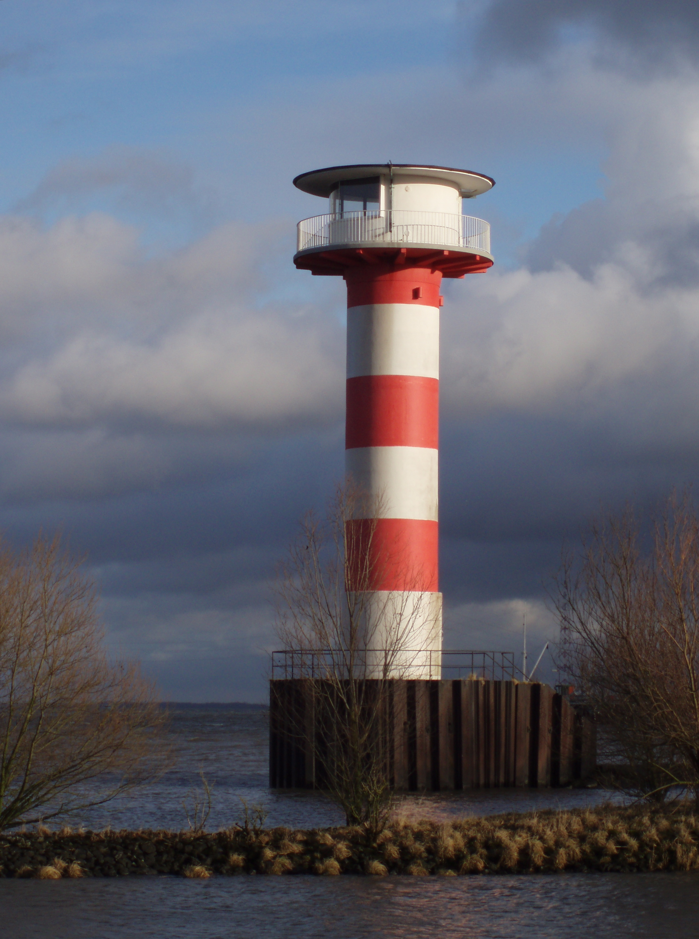 The Elbe river lighthouse at Stadersand (near Stade).